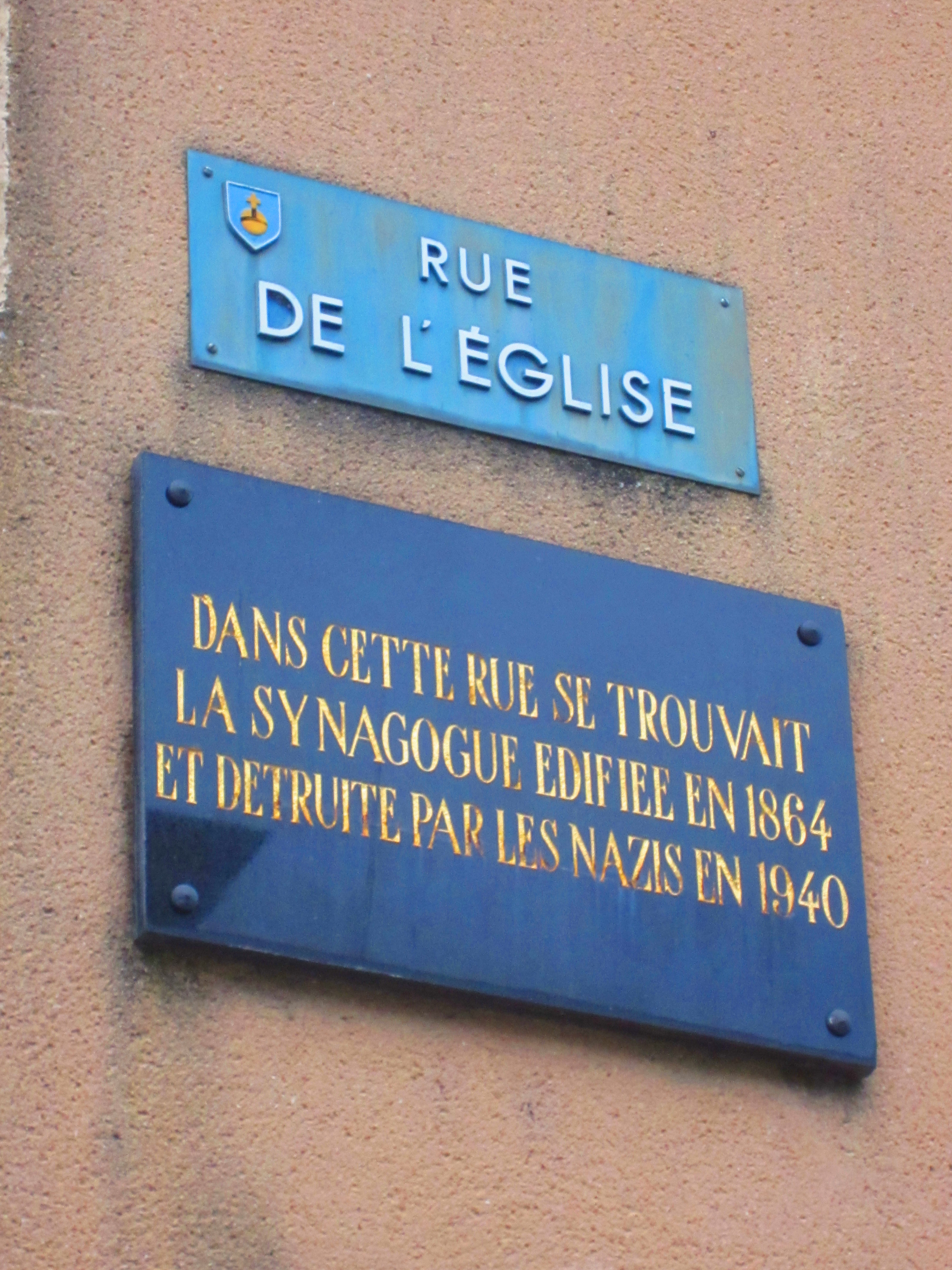 Plaque synagogue Morhange